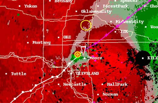 The Tornadic Vortex Signature, or TVS, is a Doppler radar velocity pattern that indicates a region of intense, concentrated rotation. The TVS appears on radar several kilometers above the ground at least ten minutes before a tornado touches ground. It has smaller, tighter rotation than a mesocyclone. While the existence of a TVS does not guarantee a tornado, it does strongly increase the probability of a tornado occurring. Tornado FAQ